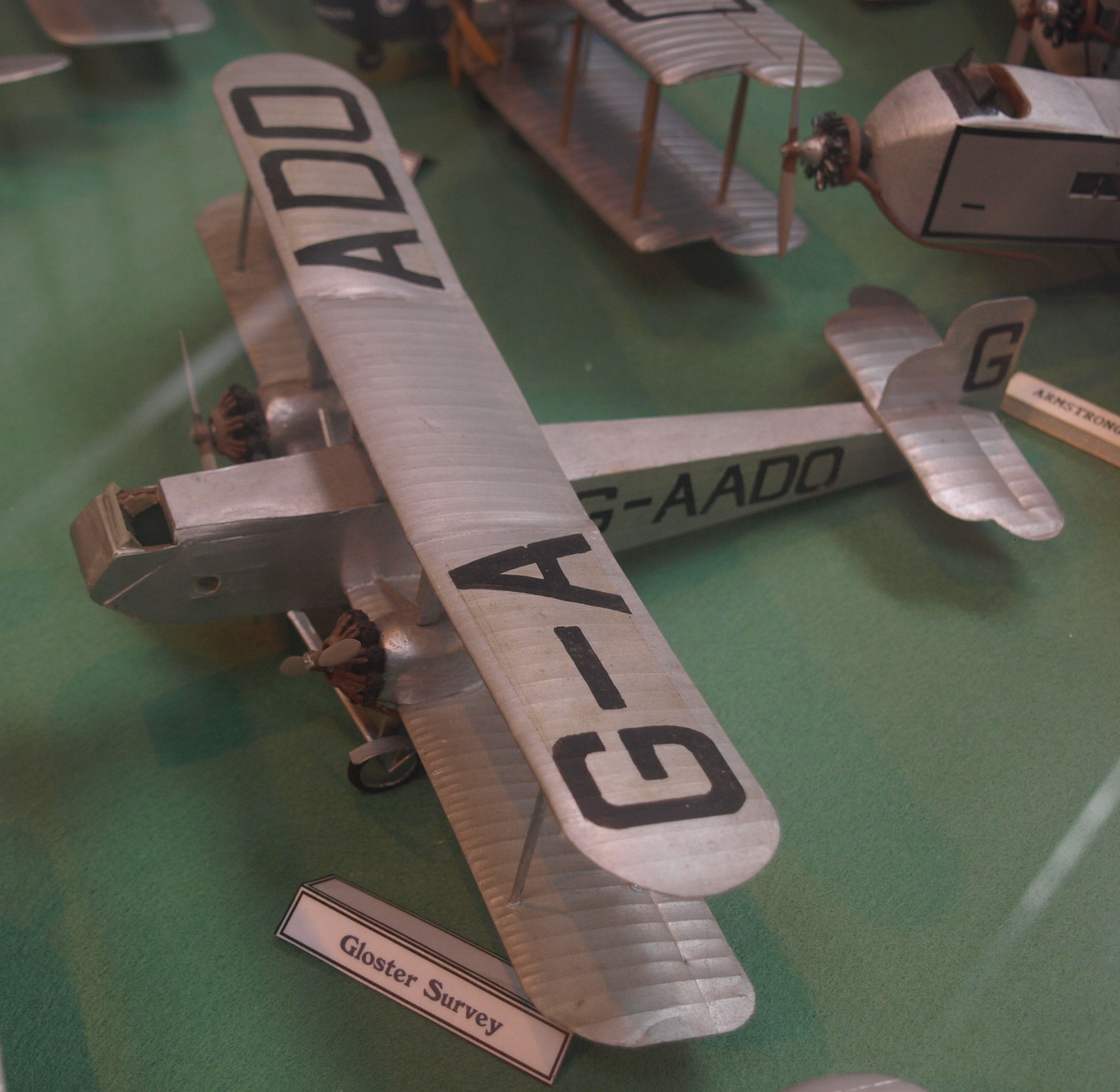 Scale model of a Gloster Survey biplane on display at the Shuttleworth Collection, Bedfordshire, England.